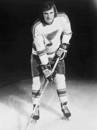 Photo of Pierre Plante as a member of the St. Louis Blues.